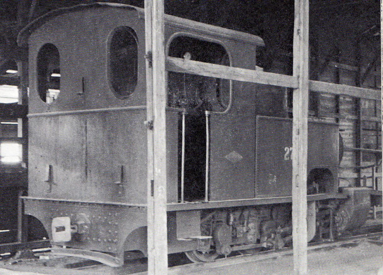 Japanese Governmental Railway type Ke270 steam locomotive, taken at Kanoya station, Kanoya, Kagoshima, Japan. The locomotive was Osumi railway No.3 steam locomotive until the railway was nationalized in 1935